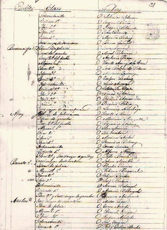 List of the Officials in some towns of Iloilo elected by their respected Principales in 1855.